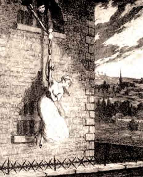 Jack Sheppard and Bess Lyon's escape from Newgate